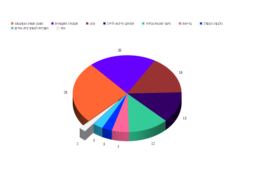 consumption in israel